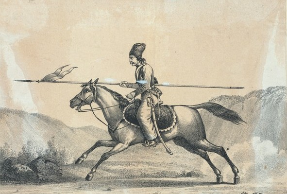 Persian 19th Century Soldiers